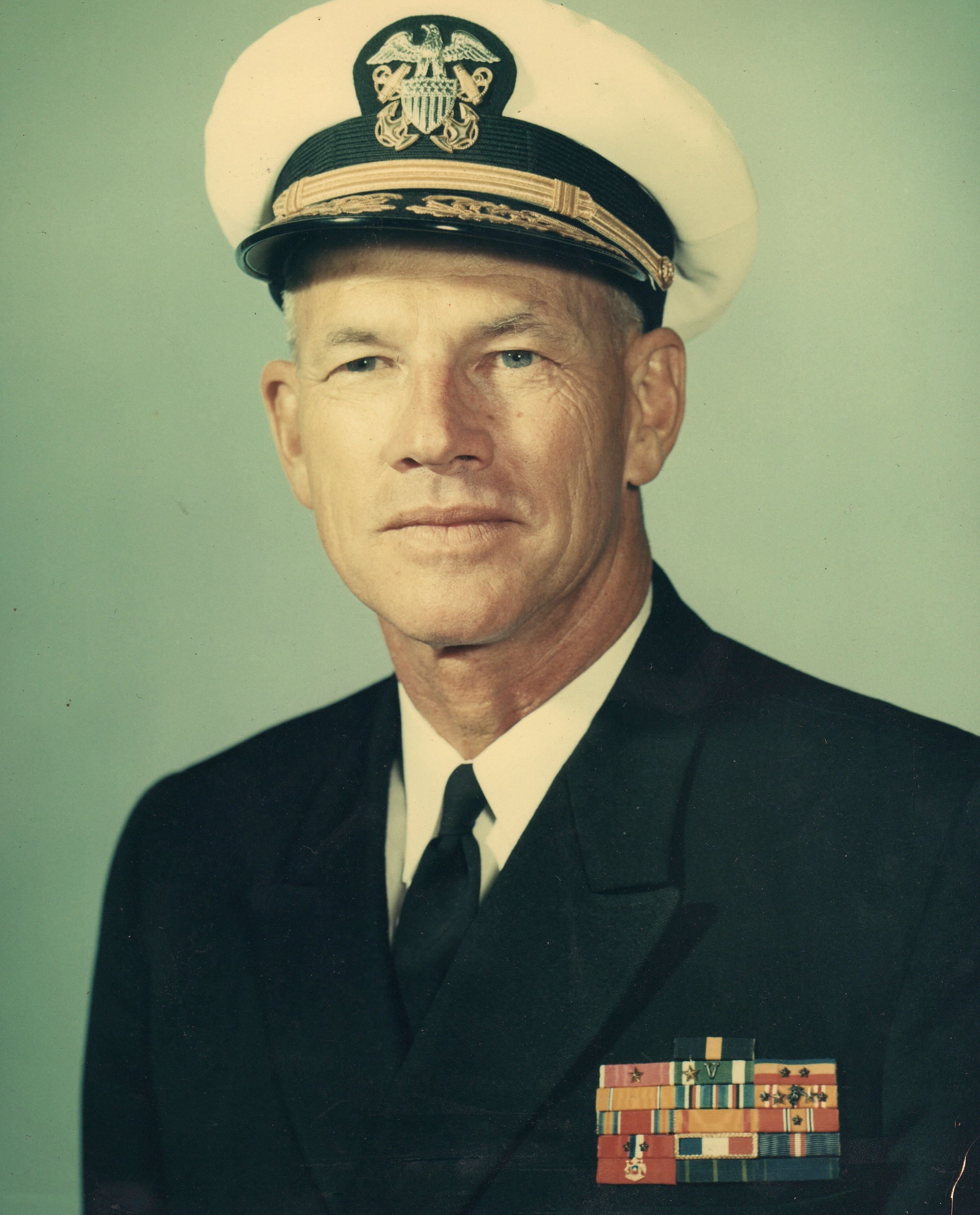 Official US Navy photograph of VADM Lloyd Mustin